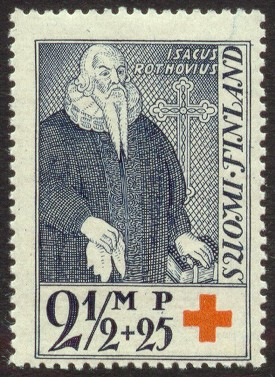 Postage stamp depicting the Finnish archbishop Isacus Rothovius